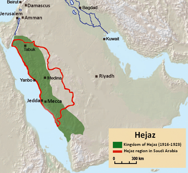 English-language version of existing Wikimedia map in Spanish